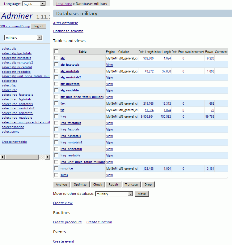 screenshot of Adminer (MySQL tool), open-source project by Jakub Vrána